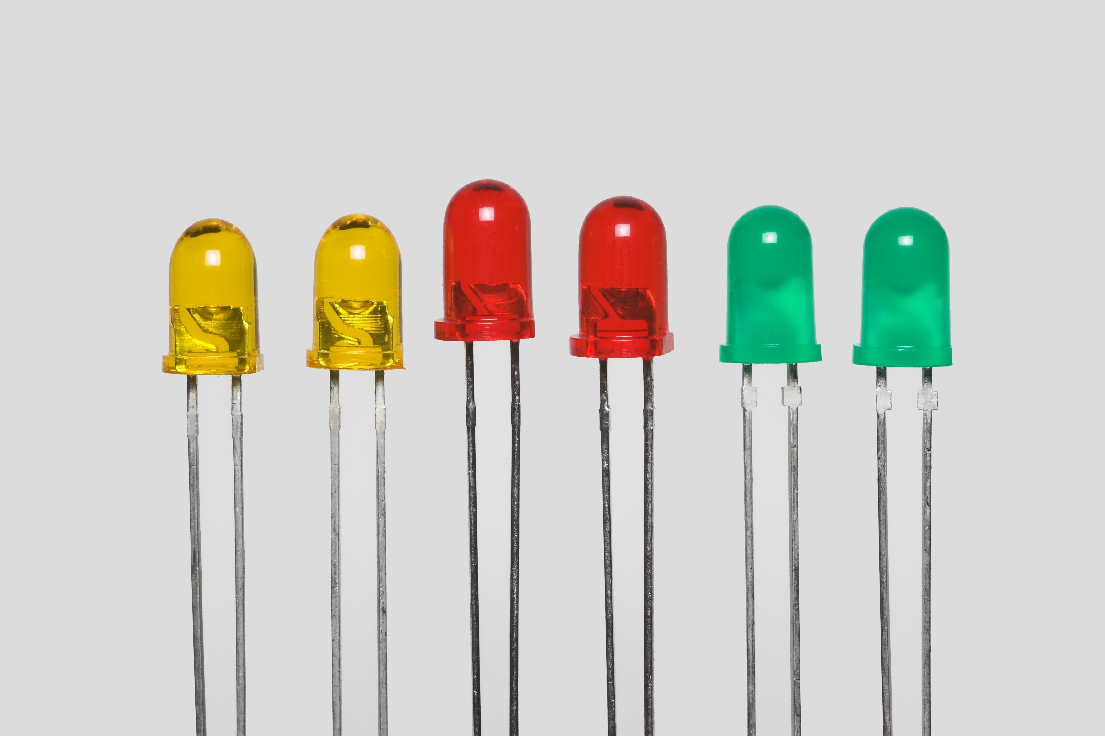 5mm LEDs in different colors.